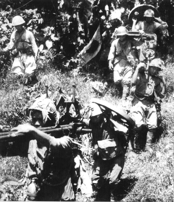 Soldiers of IJA 15th Army are carrying a Type 92 battalion gun during Operation U-Go, March/April 1944.